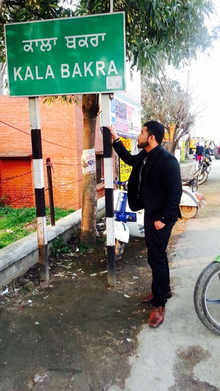 sign from the village